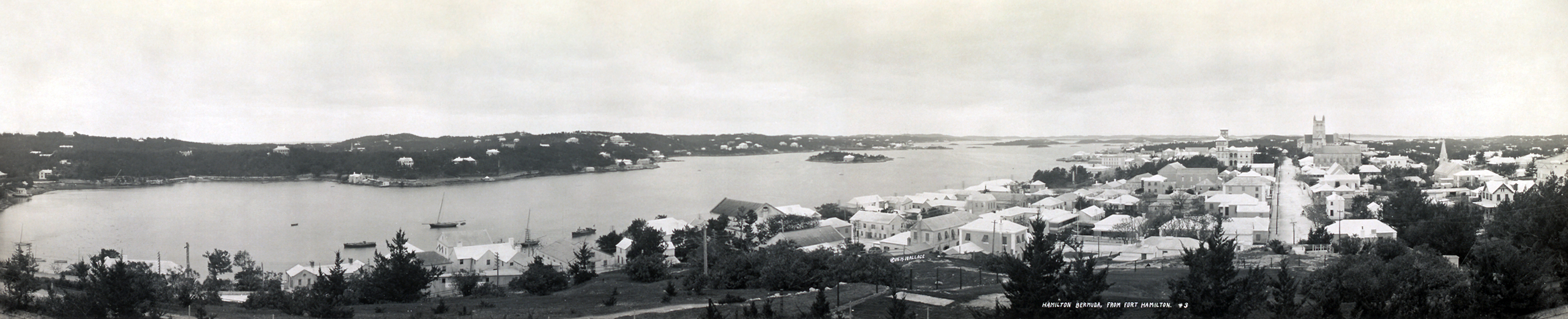 Hamilton, Bermuda. Panorama from Fort Hamilton. Digitized from gelatin silver print.